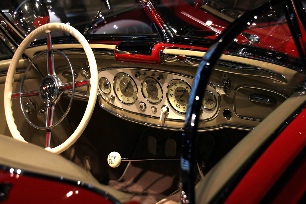 Visit at the Mercedes-Benz Museum, 09.04.2011